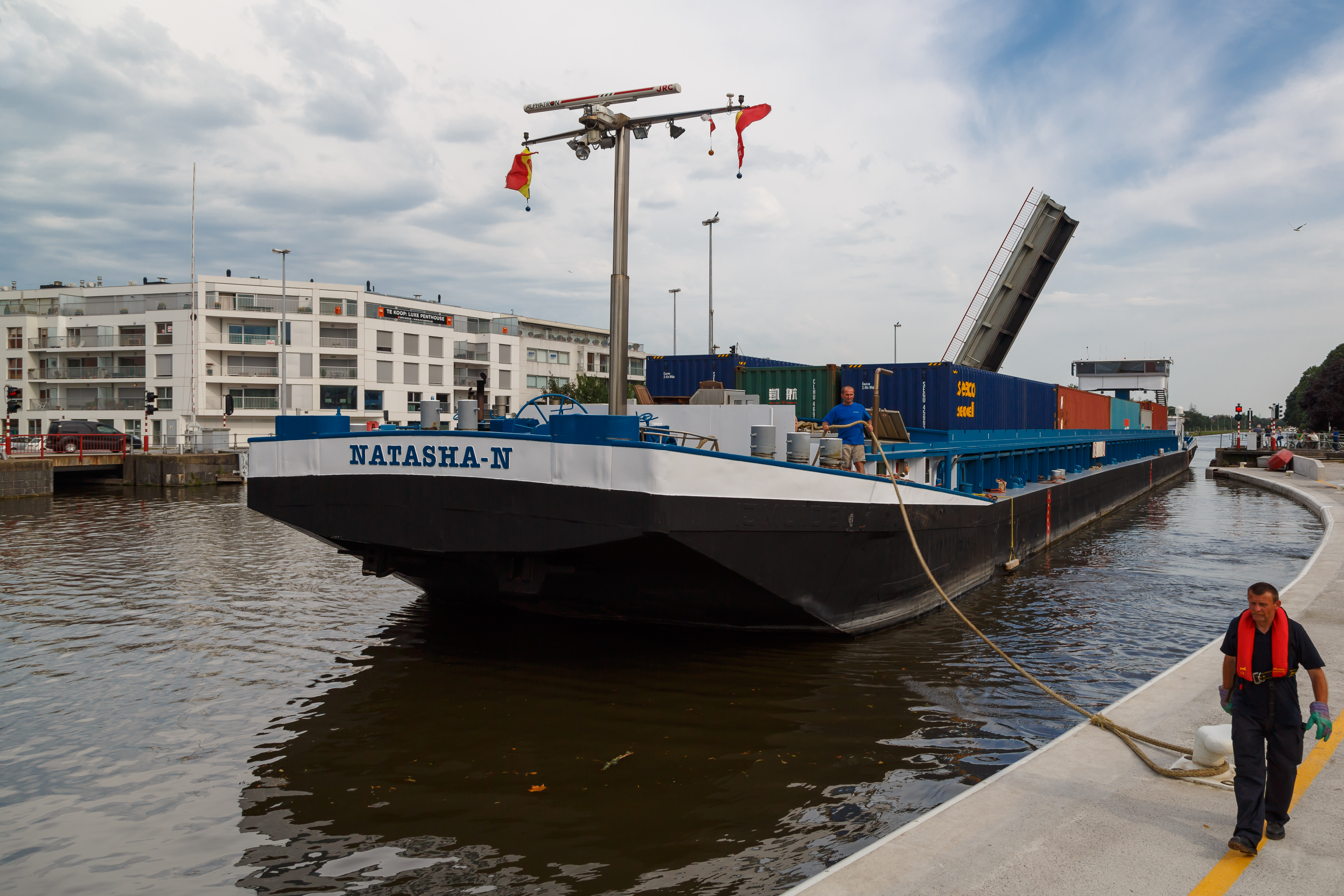 Bruges, Belgium: Cargoship Natasha-N in the Dampoort Lock